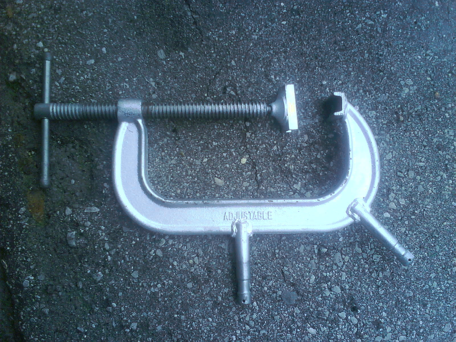 Example of grip equipment; a studded c-clamp